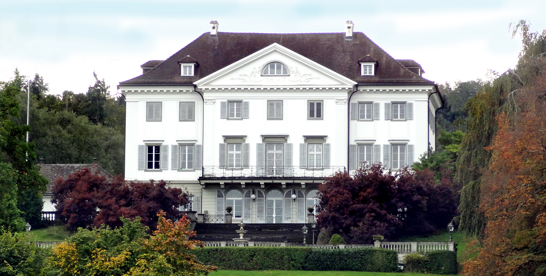 Eugensberg Castle in Salenstein, Switzerland